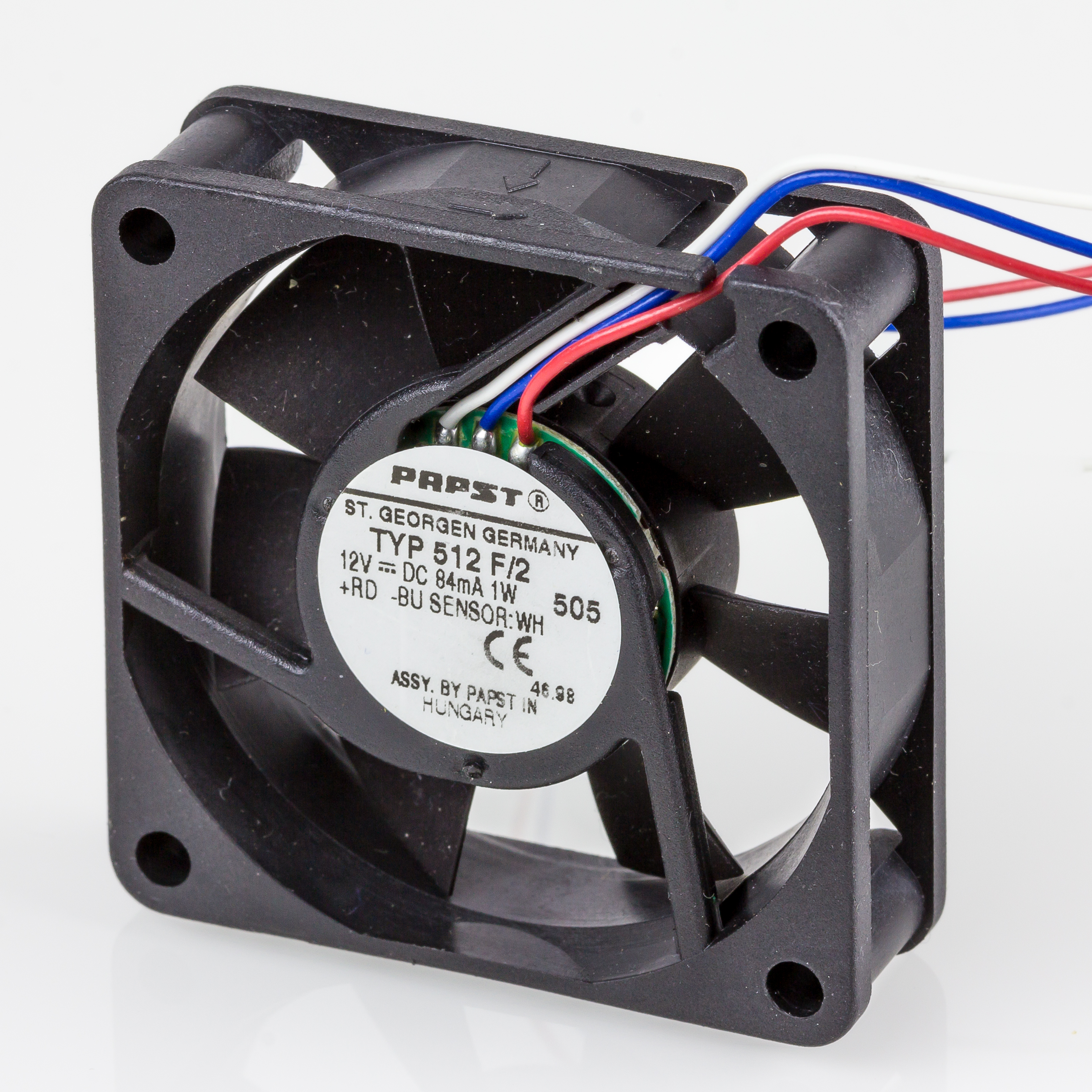 Papst computer cooling fan 512 F/2. Size: 50x50x15 mm